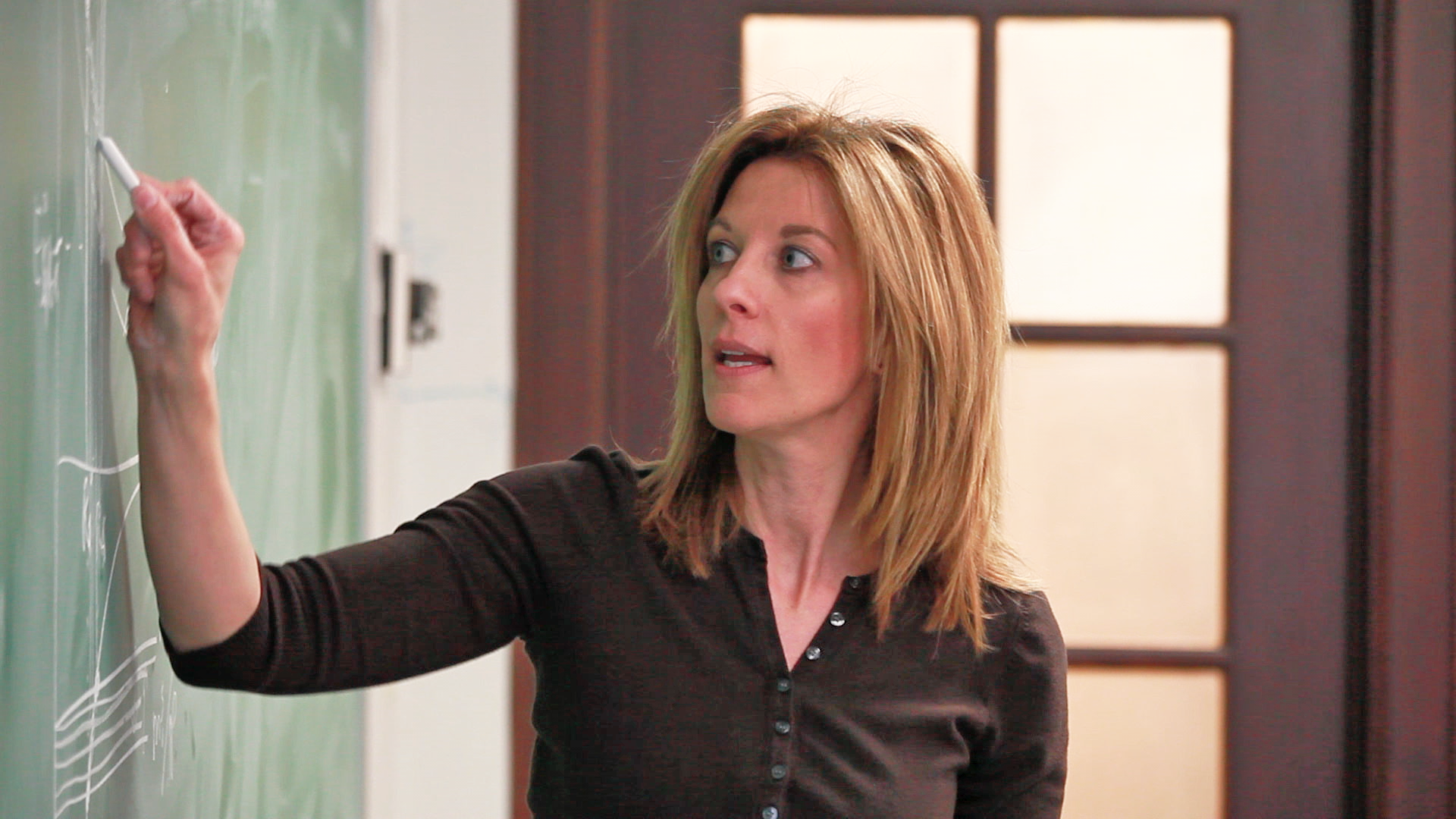 Stephanie Kelton classroom